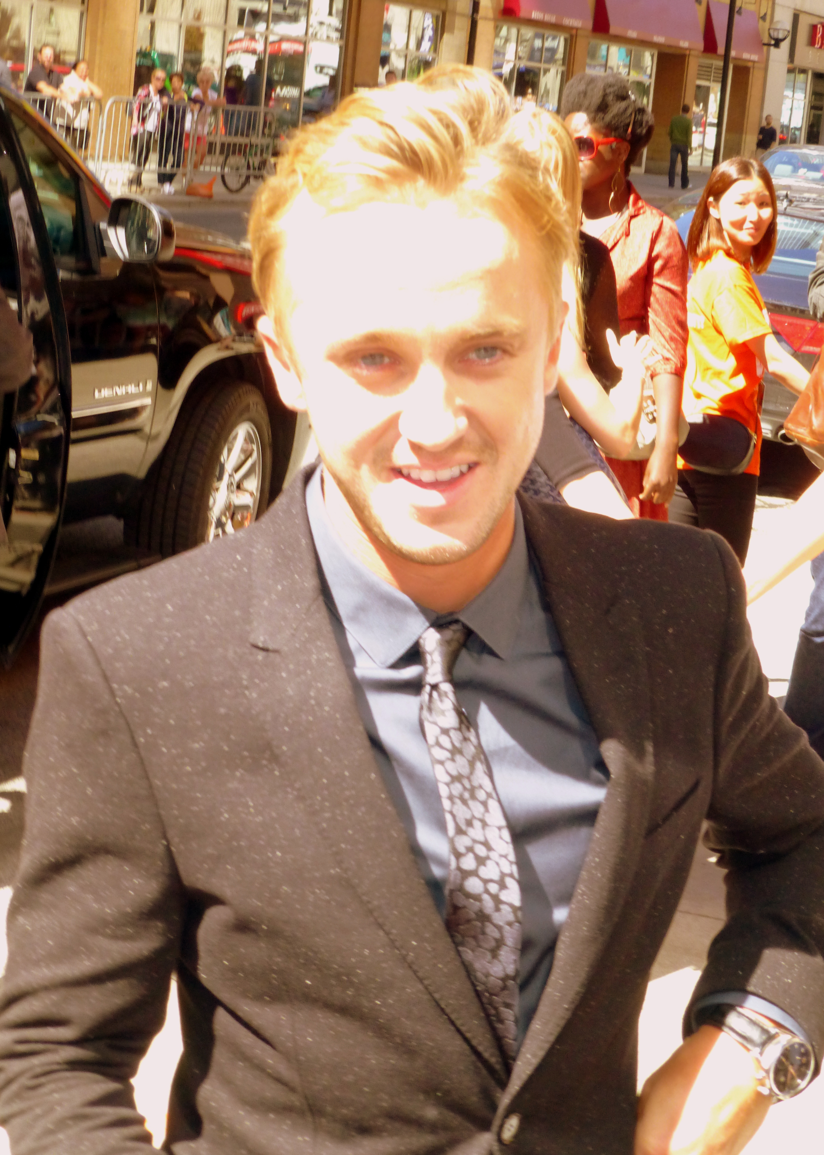 Tom Felton at the premiere of Belle, Toronto Film Festival 2013